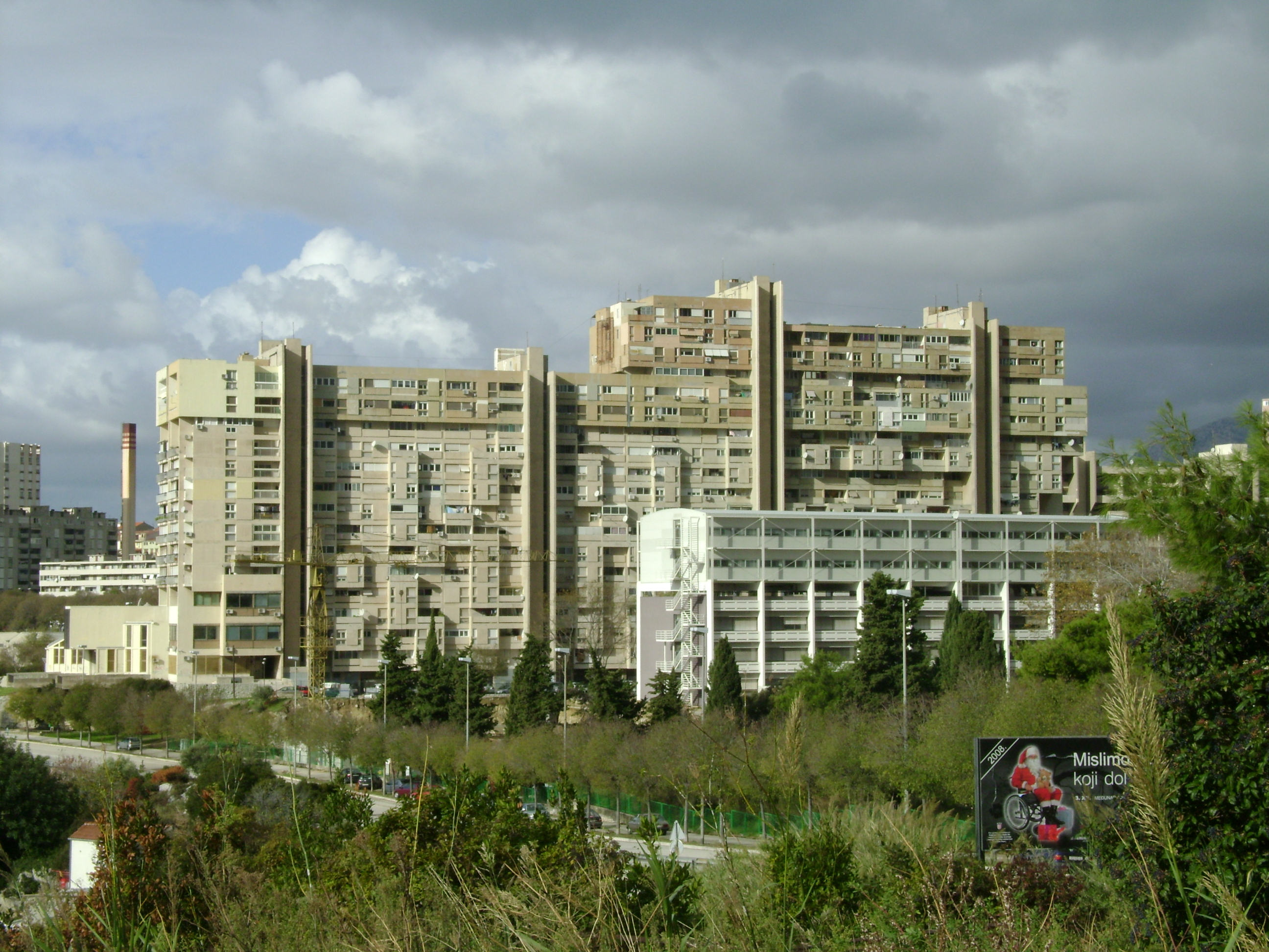 picture of Krstarica building